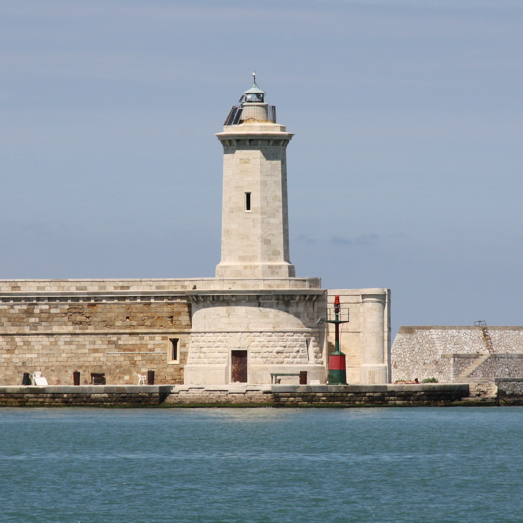 Italy, Livorno. Diga Curvilinea. The north lighthouse.